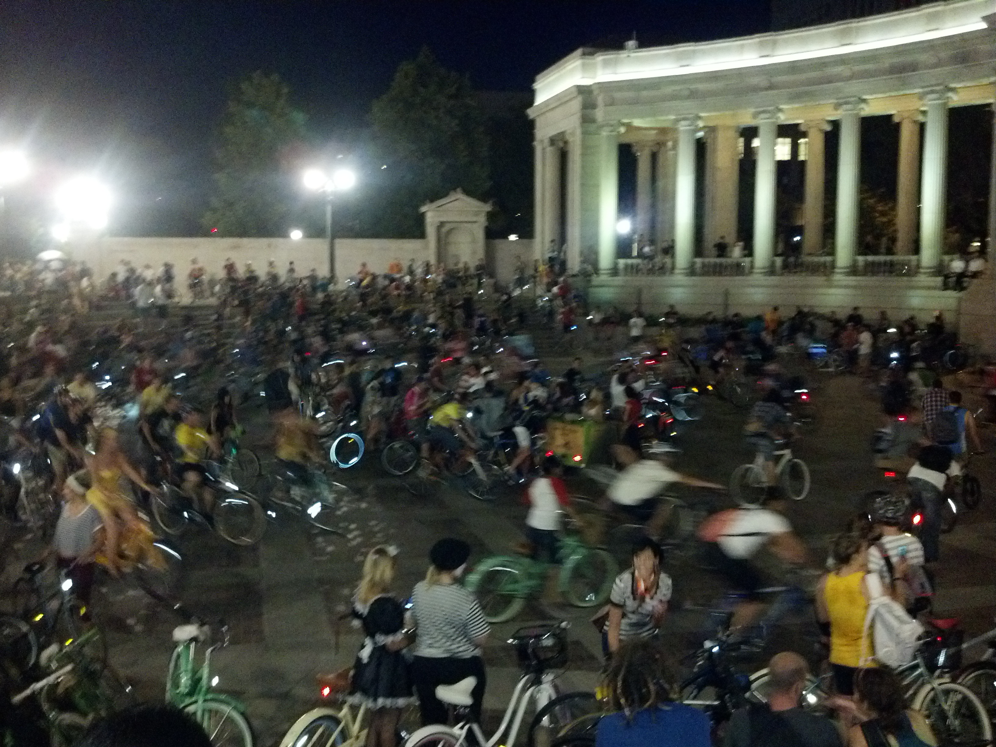 The Denver Cruiser Ride Circle of Death at Civic Center Park on June 27, 2012.